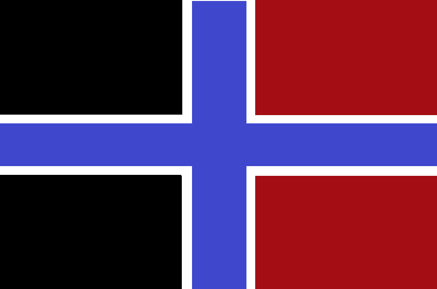 The flag of The Congress of the New Right - polish political party